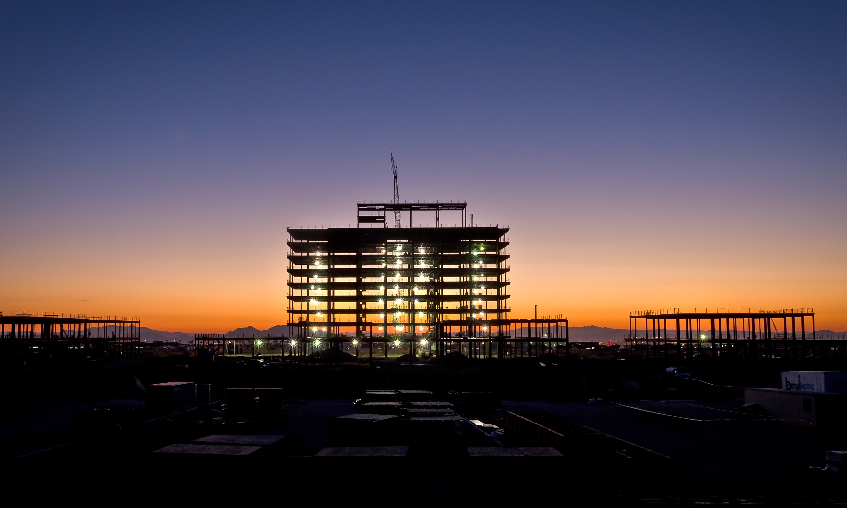 One Summerlin office building (center) and surrounding mall buildings during construction at Downtown Summerlin in Las Vegas, Nevada.